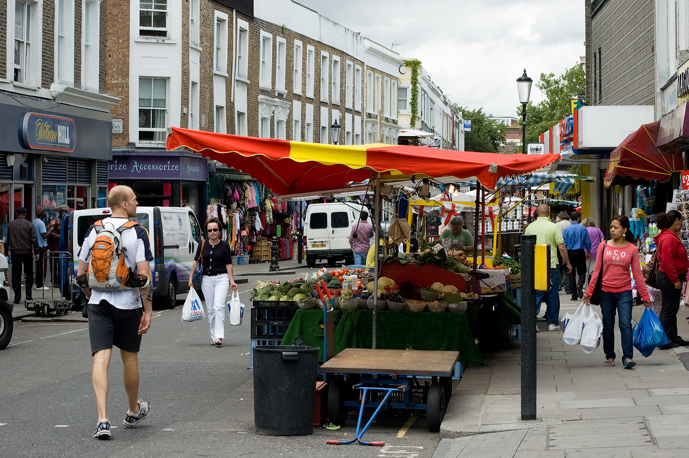 Portobello Road in London.